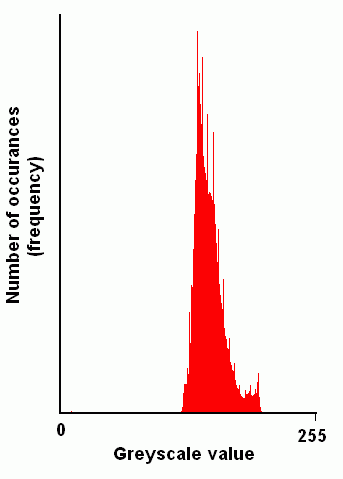 Greyscale frequency histogram of Unequalized Hawkes Bay NZ.jpg.